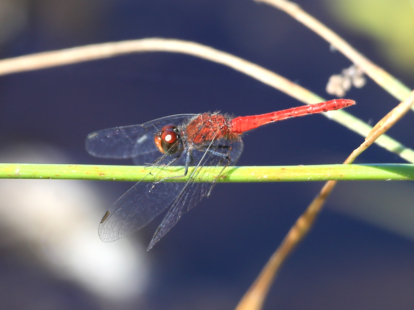 Pygmy Percher (Nannodiplax rubra) a tiny dragonfly 25mm long, photographed in Cairns, Queensland, Australia